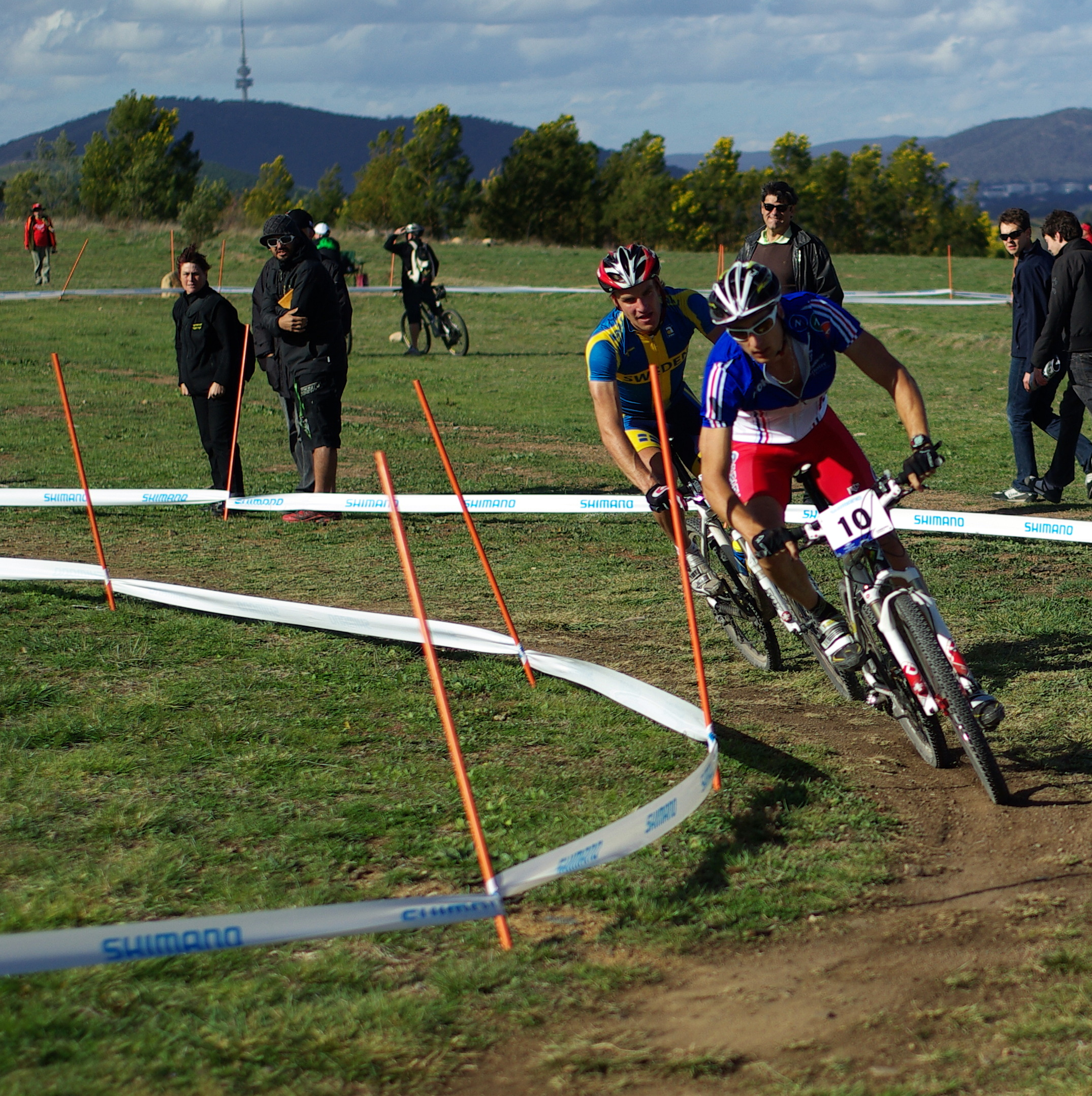 Cross-country mountain biking: Competitors in the under 23 men's division at the 2009 UCI Mountain Bike and Trials World Championships held at Mount Stromlo, near Canberra, Australia. A Swedish competitor pursues Frenchman Guillaume Vinit around a bend.